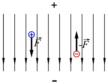 Current directions